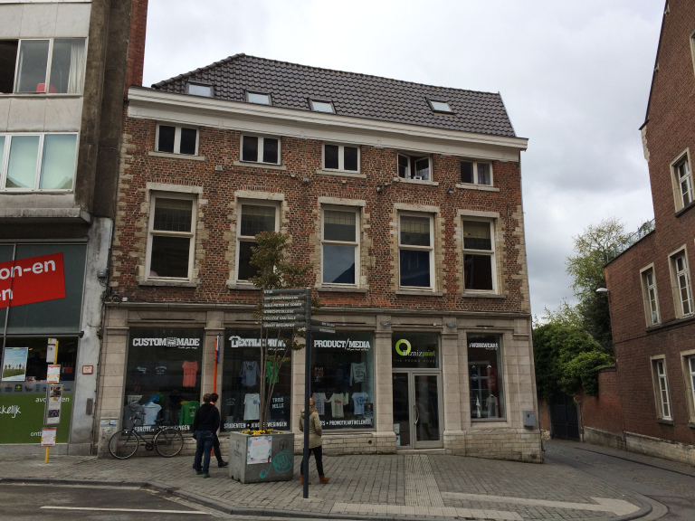 Refuge of the former Valduc Abbaye; house in Leuven (Belgium) Naamsestraat